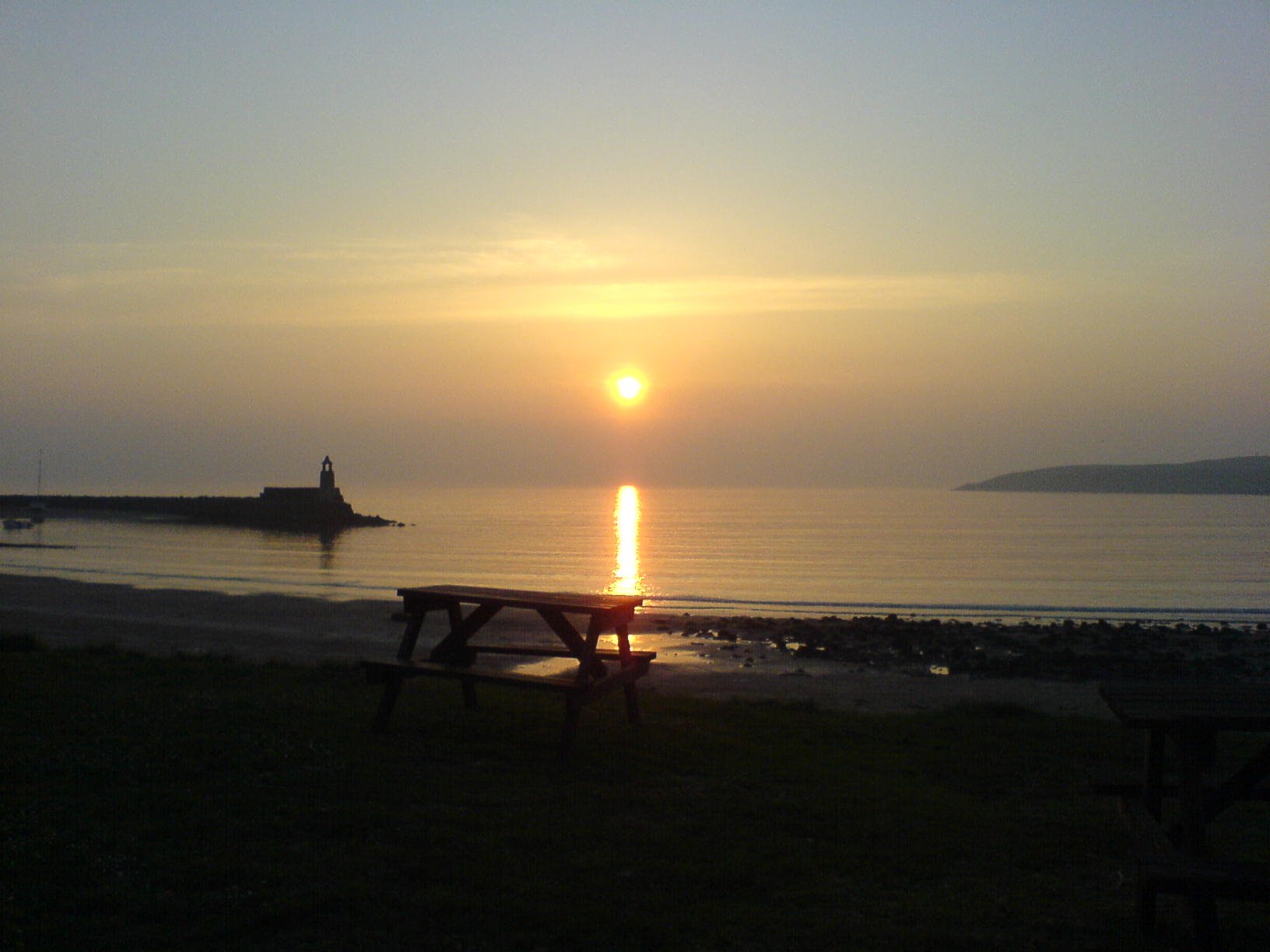 Port Logan sunset